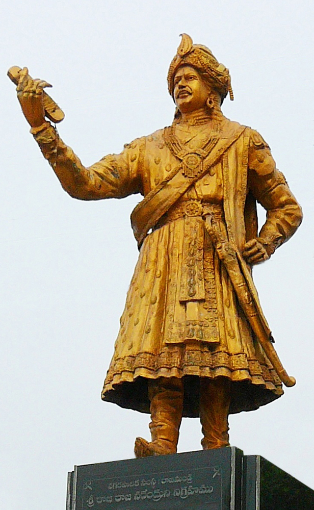 Rajaraja Narendra (King) and Founder of Fajahmundry city